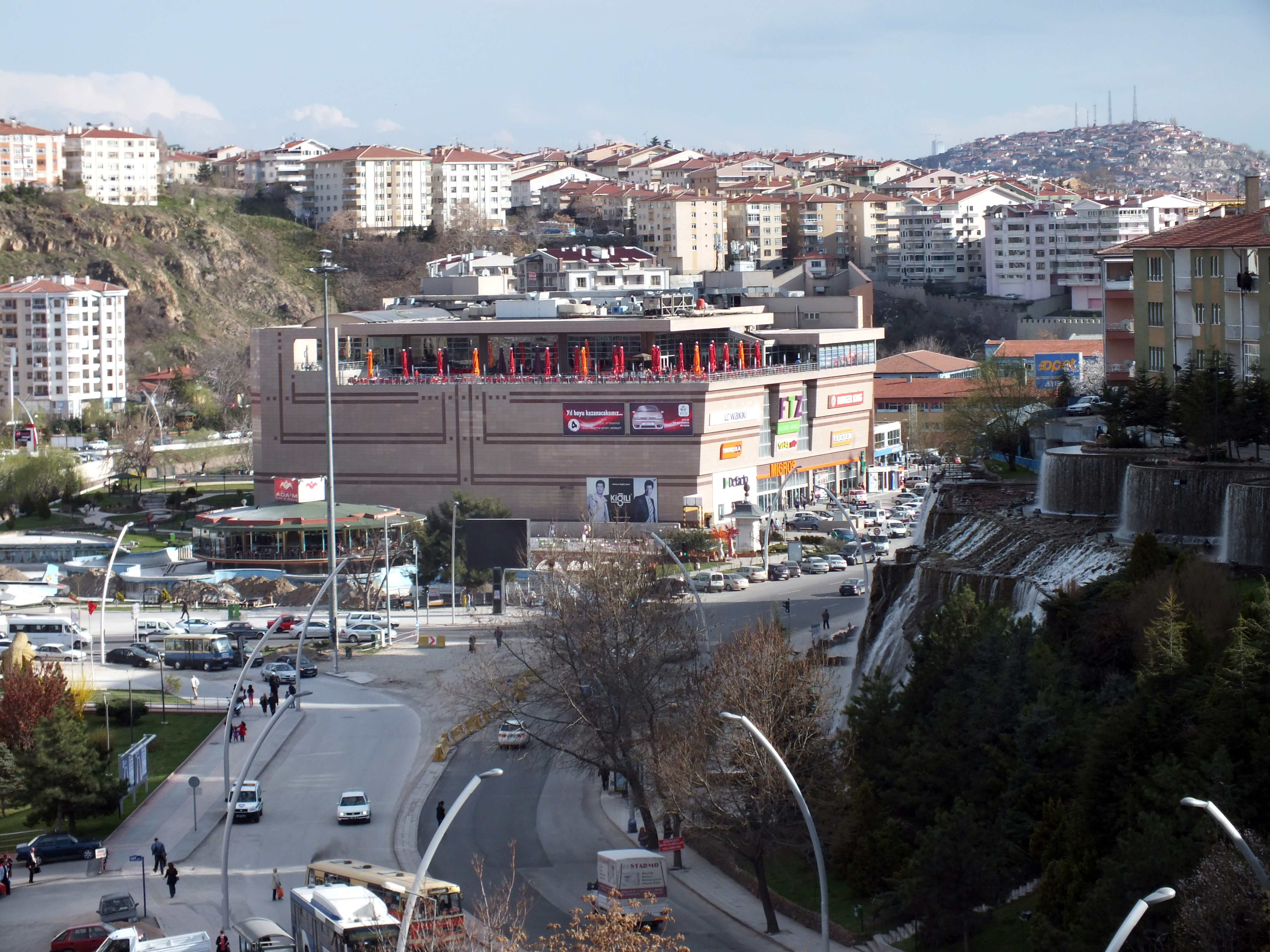 A view of the Keçiören which is district of Ankara